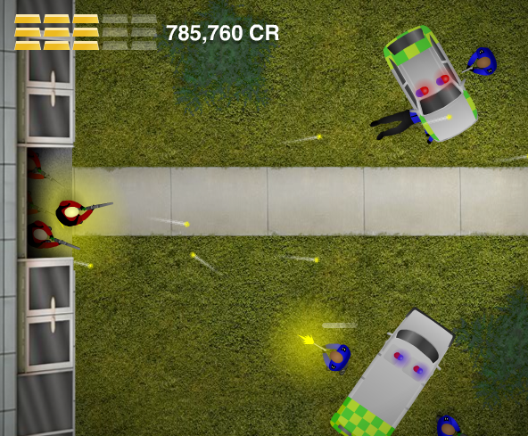 A robbery scene from The Heist 2